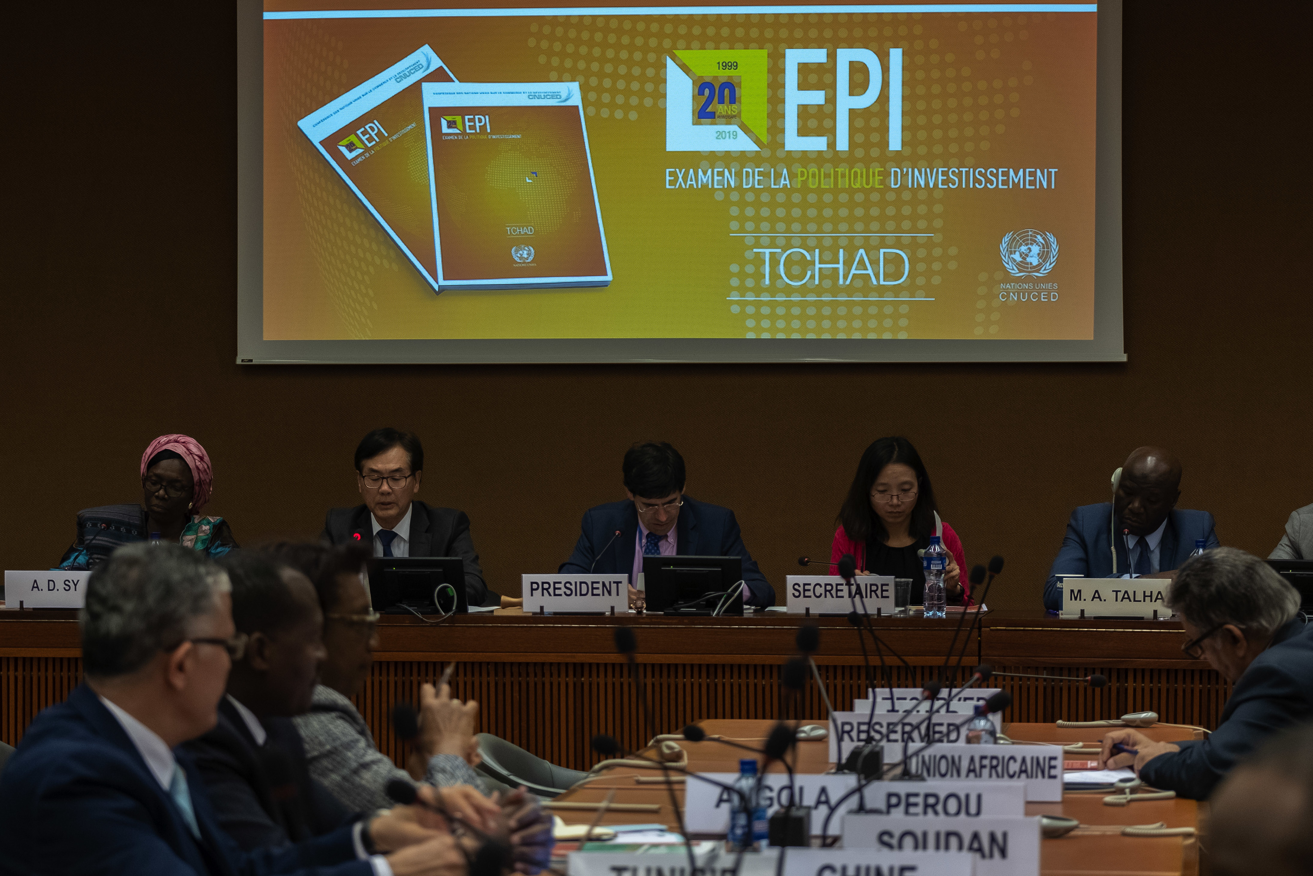 Achta Djibrine Sy, Minister of Mining, Industrial and Commercial Development, and Private Sector Promotion of the Republic of Chad At the presentation of UNCTAD's investment policy review for Chad on 12 November 2019 in Geneva, Switzerland. Photo: Tim Sullivan (UNCTAD) More